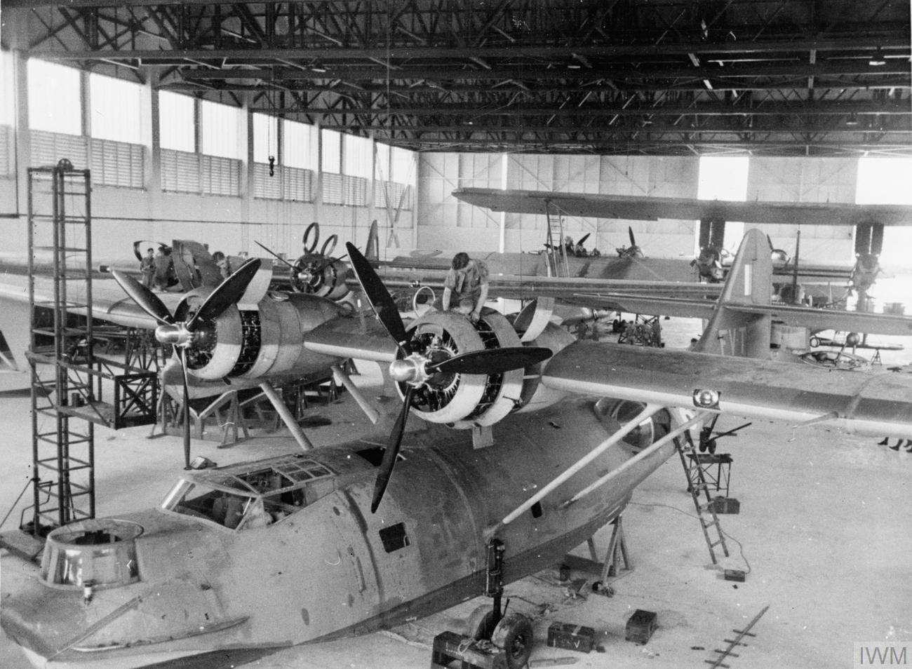 Consolidated Catalina Mark Is of No. 205 Squadron RAF undergoing servicing in their hangar at Seletar, Singapore, in mid-1941. One of the Squadron's Short Singapore Mark IIIs bi-plane flying boats, which was the type the Catalina was replacing, can be seen in the right background.